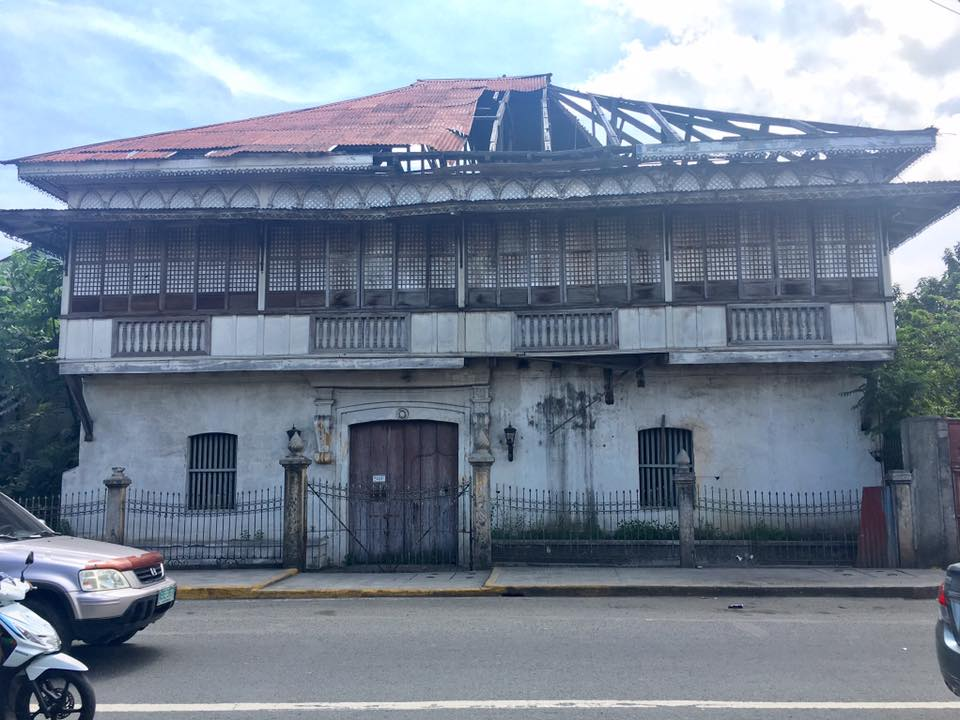 Bahay na Bato in Calamba